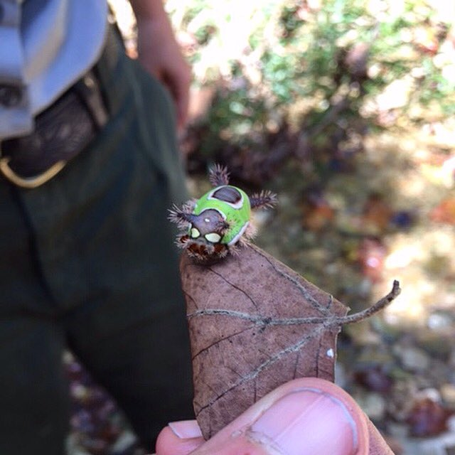 Saddleback caterpillar at Knob Creek.They're #pretty but dangerous! #lincolnbirthplace #Kentucky #nature